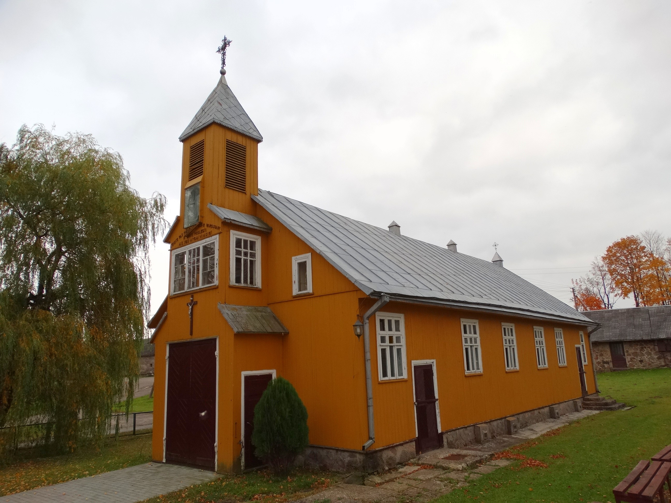 Old Catholic Church, Sangrūda, Kalvarija Municipality, Lithuania